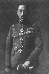 Fukui Shigeki was an Imperial Japanese Army Colonel